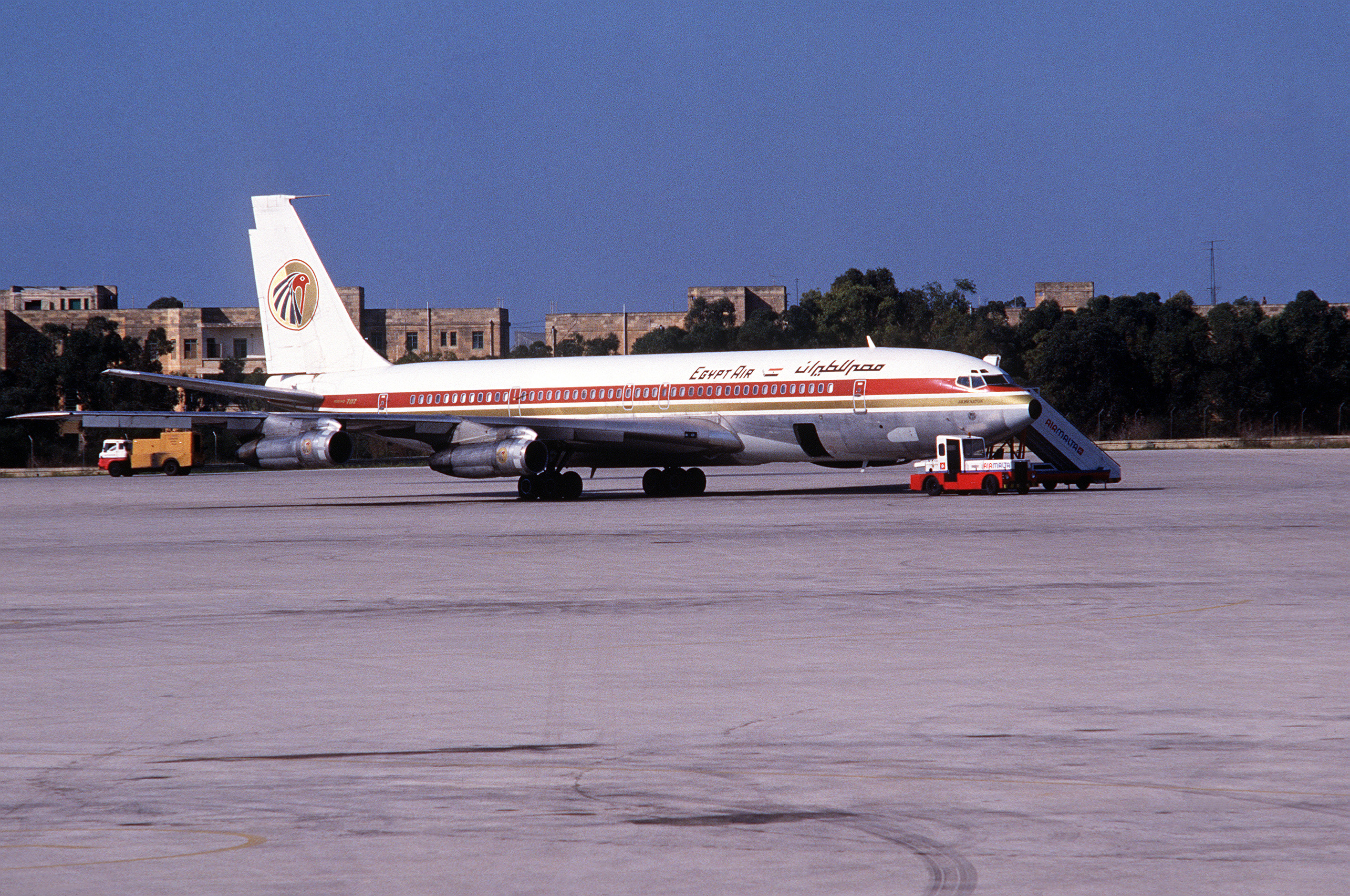 An Egypt Air Boeing 707 passenger jet is parked on the ramp at Luqa Airport, Malta